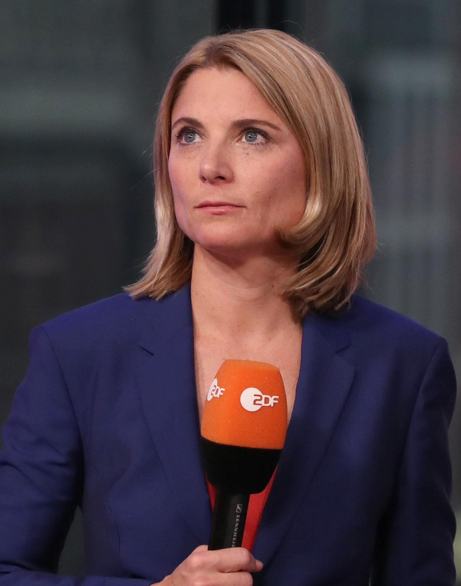 Election night Bürgerschaft of Bremen 2019: Yve Fehring (ZDF)